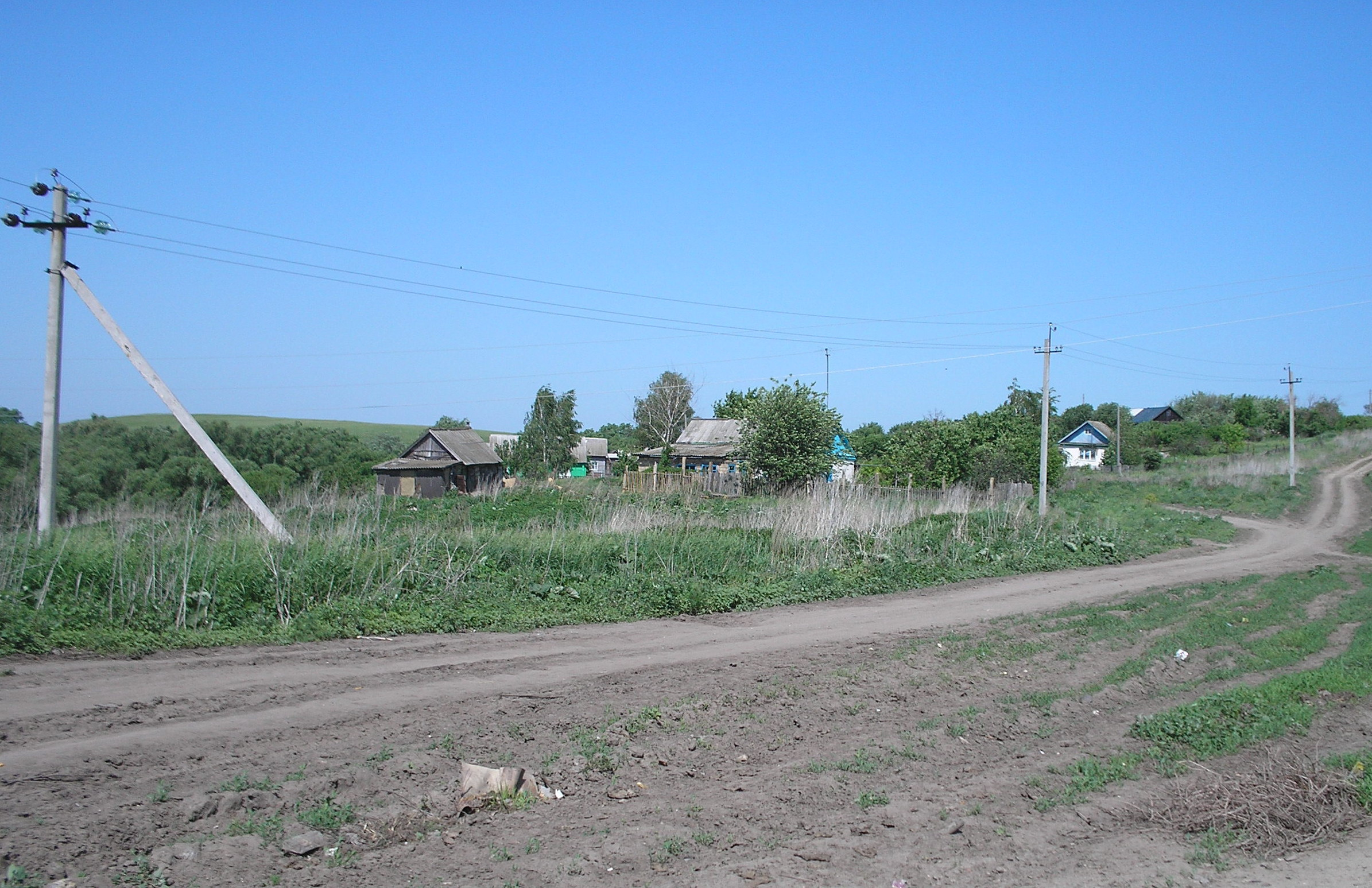 On this place there was a church village Rtishchevo